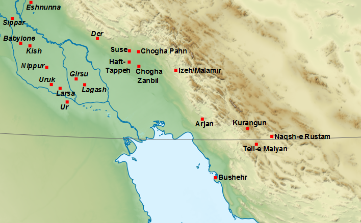 Location map of the main elamite cities.